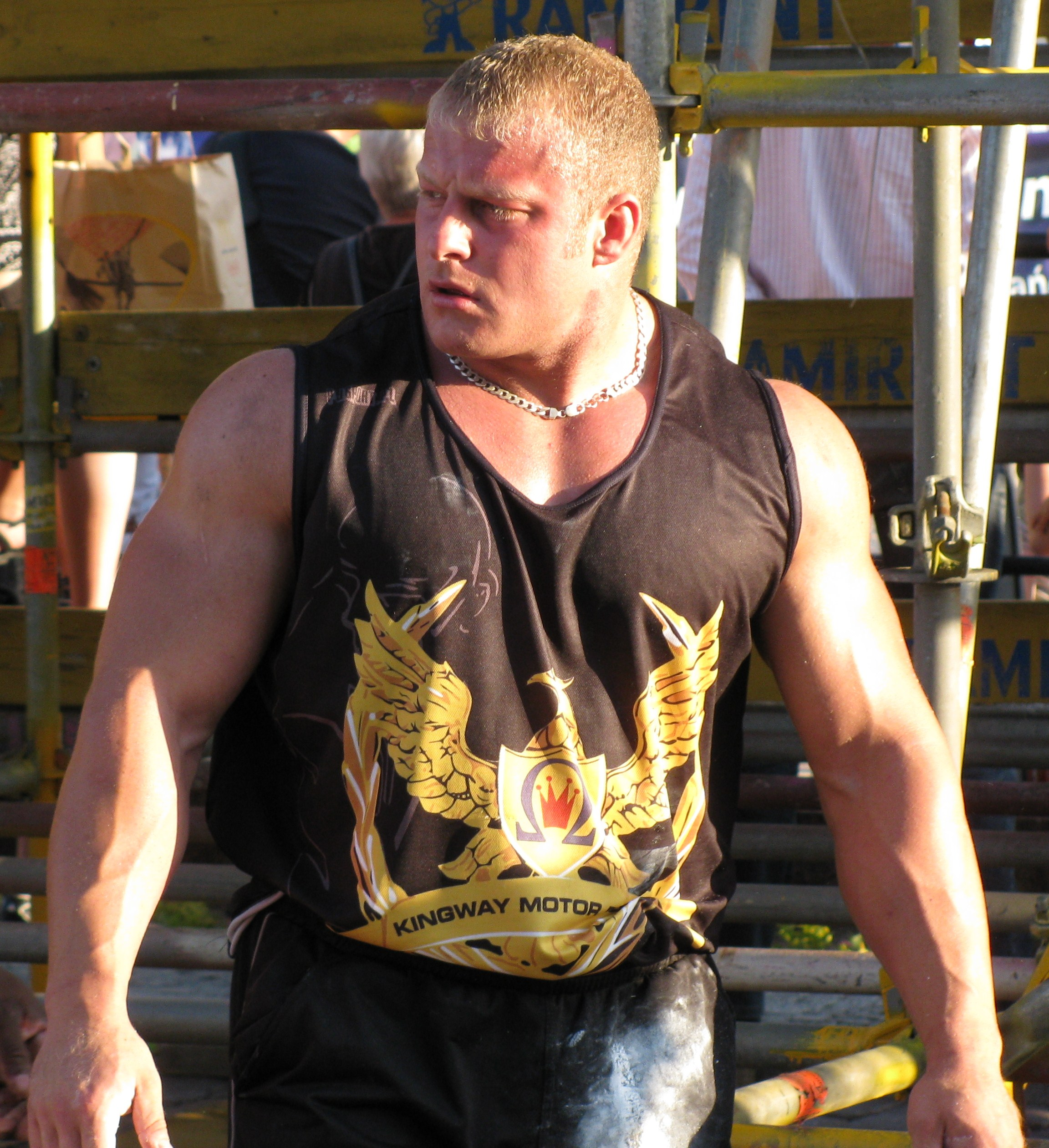 Darren Sadler - a strength athlete from England